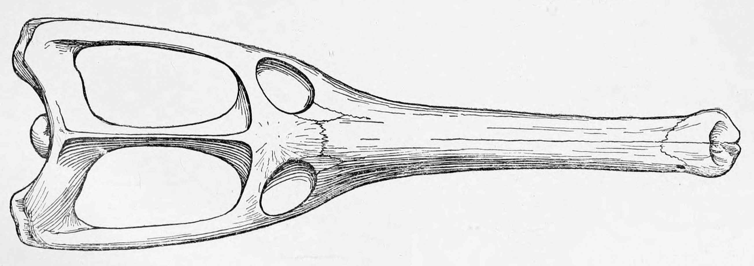 Skull of Lemmysuchus obtusidens (formerly Steneosaurus).[